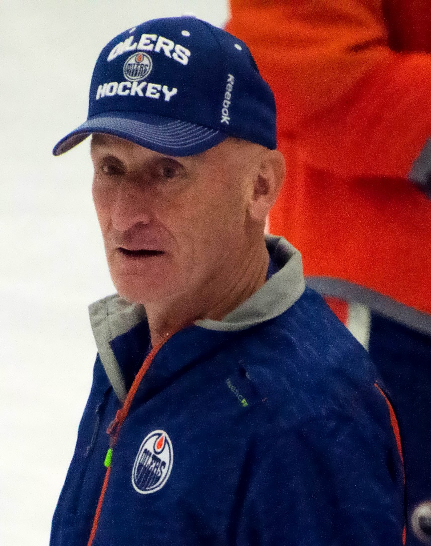 Craig Ramsay at an Edmonton Oilers practice, Sept. 27, 2014